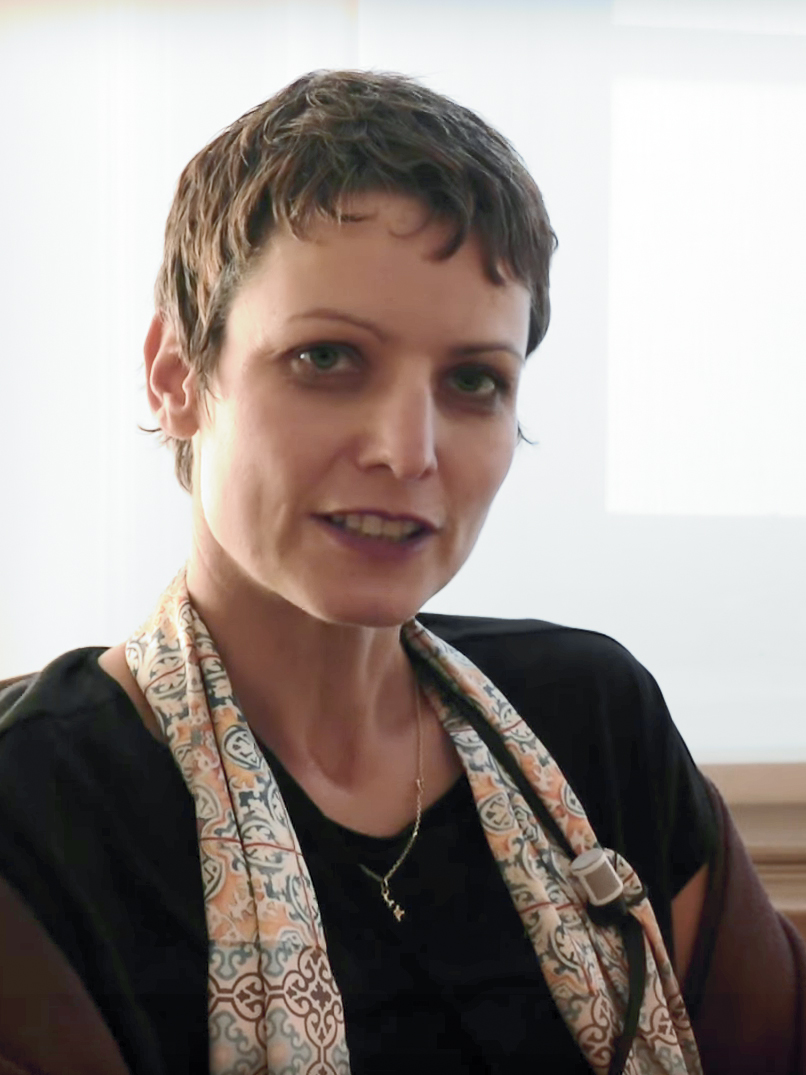 Sophie Divry (2018)